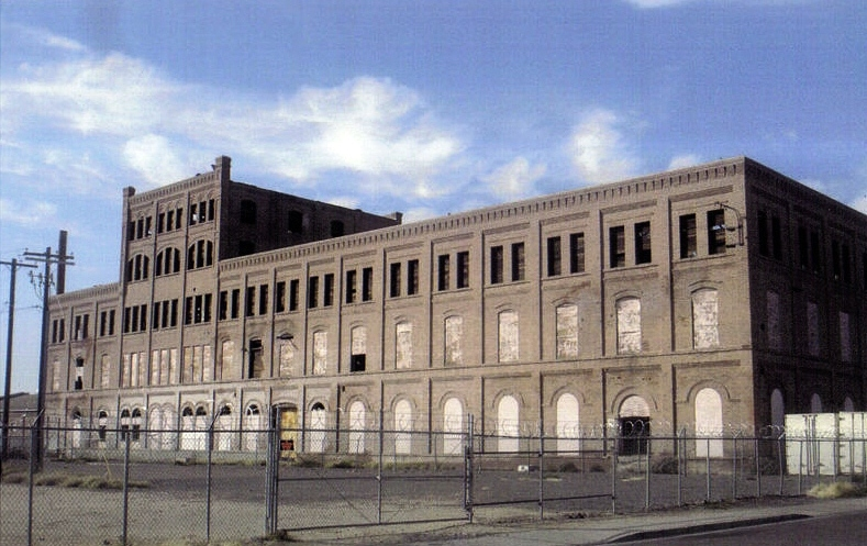 Historic (NRHP) Beet Sugar Factory built in 1906, Glendale, Arizona. Listed in the National Register of Historic Places.